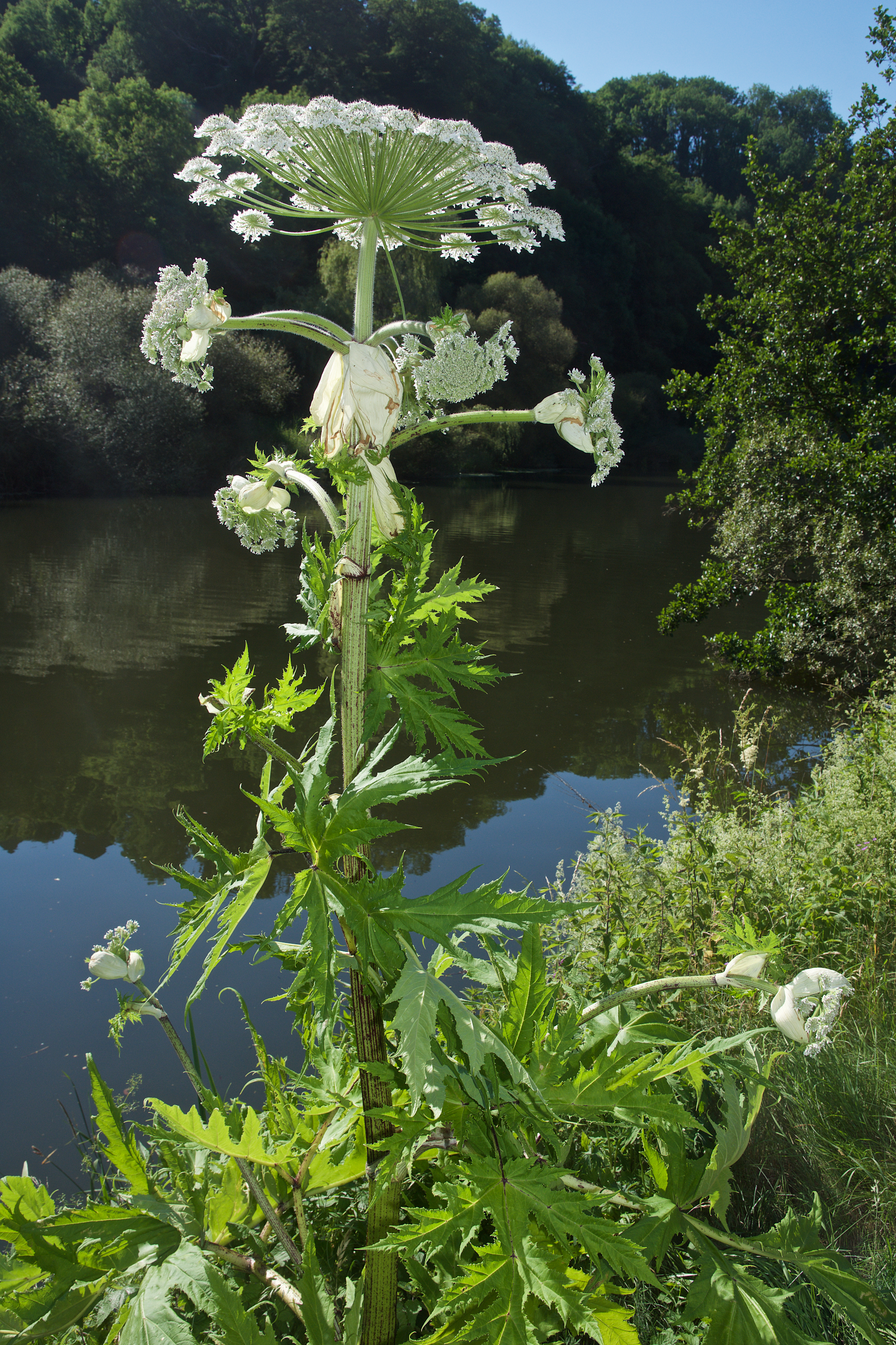 Heracleum mantegazzianum Sommier & Levier Riesen-Bärenklau